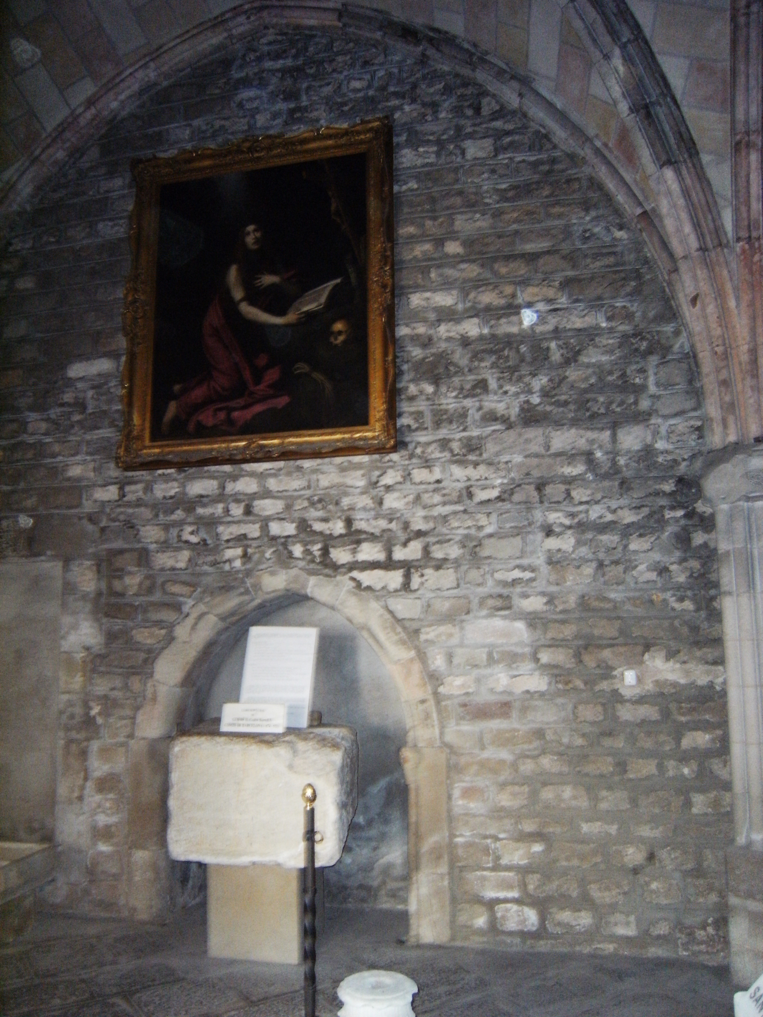 Sant Pau del Camp , Interior , làpida de Guifré-Borrell , 236